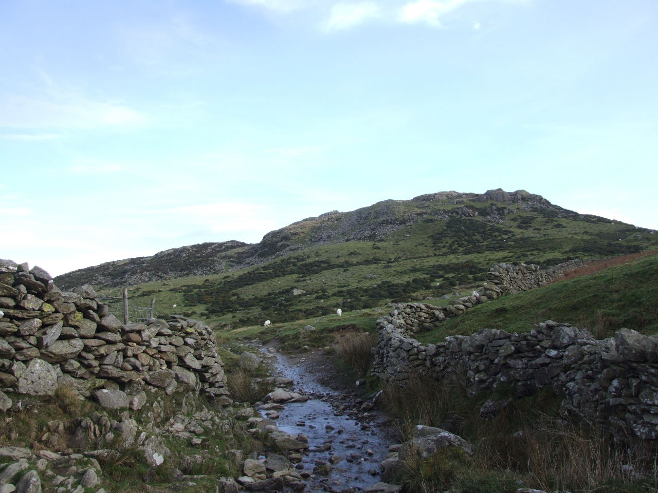 Ford on a stream near Tal y Fan, between Penmaenmawr and Rowen, Conwy County, Wales.